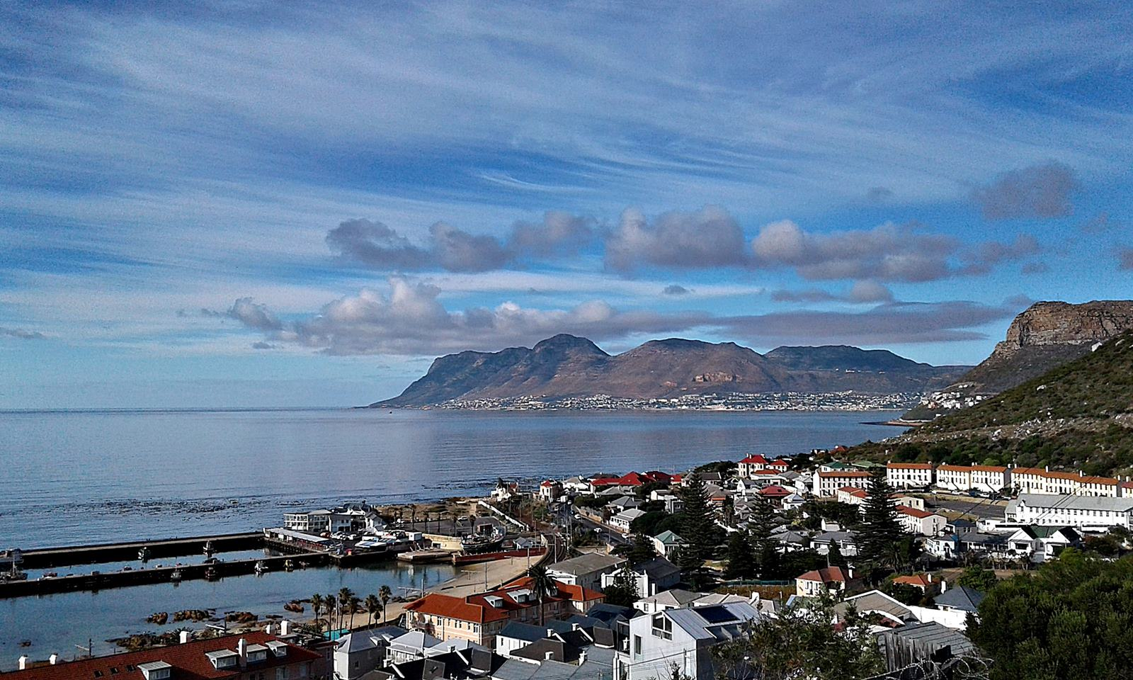 Kalk Bay village is in the foreground with the Bible Institute campus skirting the coastline in the middle ground. False bay and the Cape of Good Hope mountains are in the background.